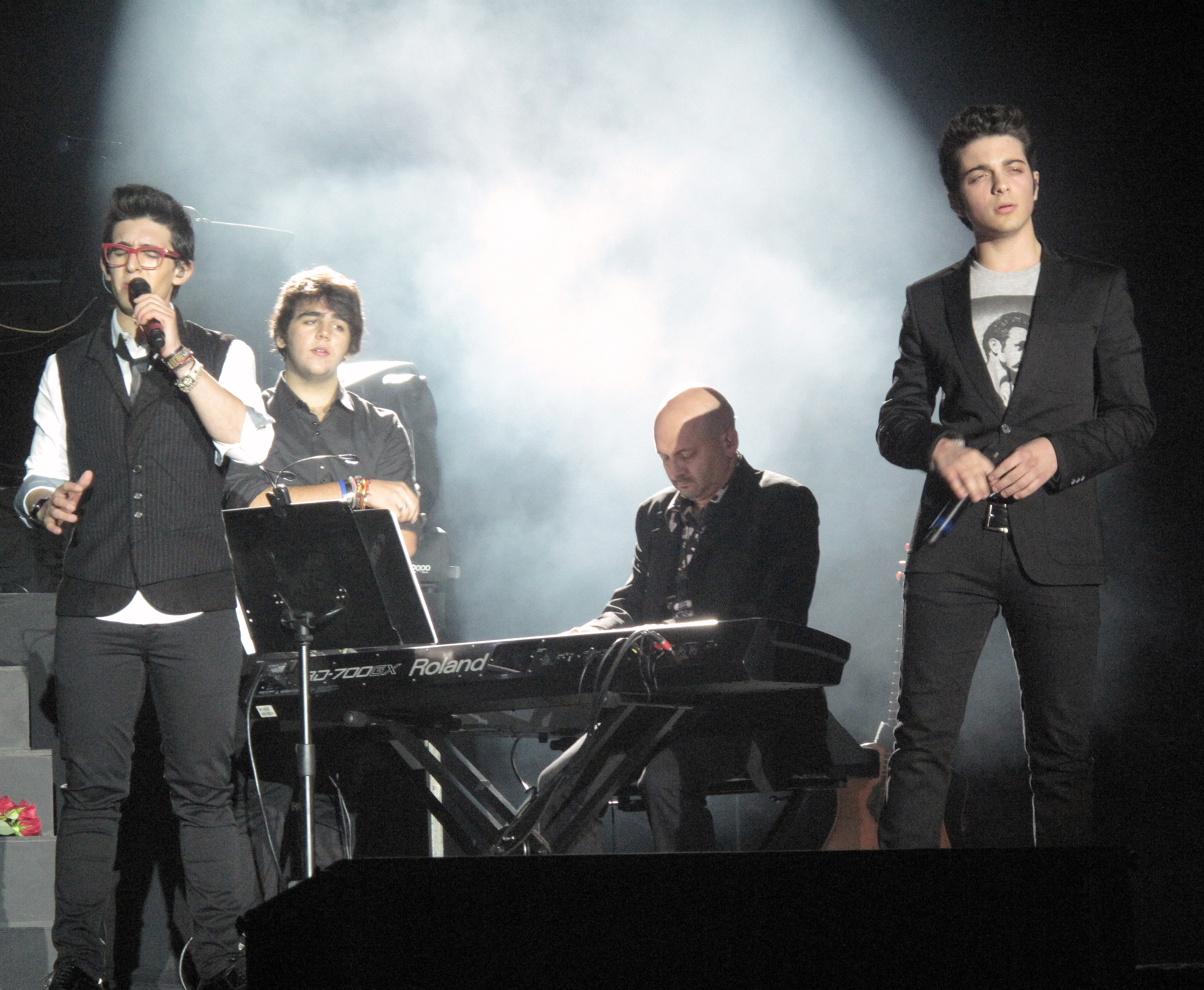 Photo from Il Volo's Concert at Palacio de los Deportes, Bogotá / Colombia. April 15 of 2012.